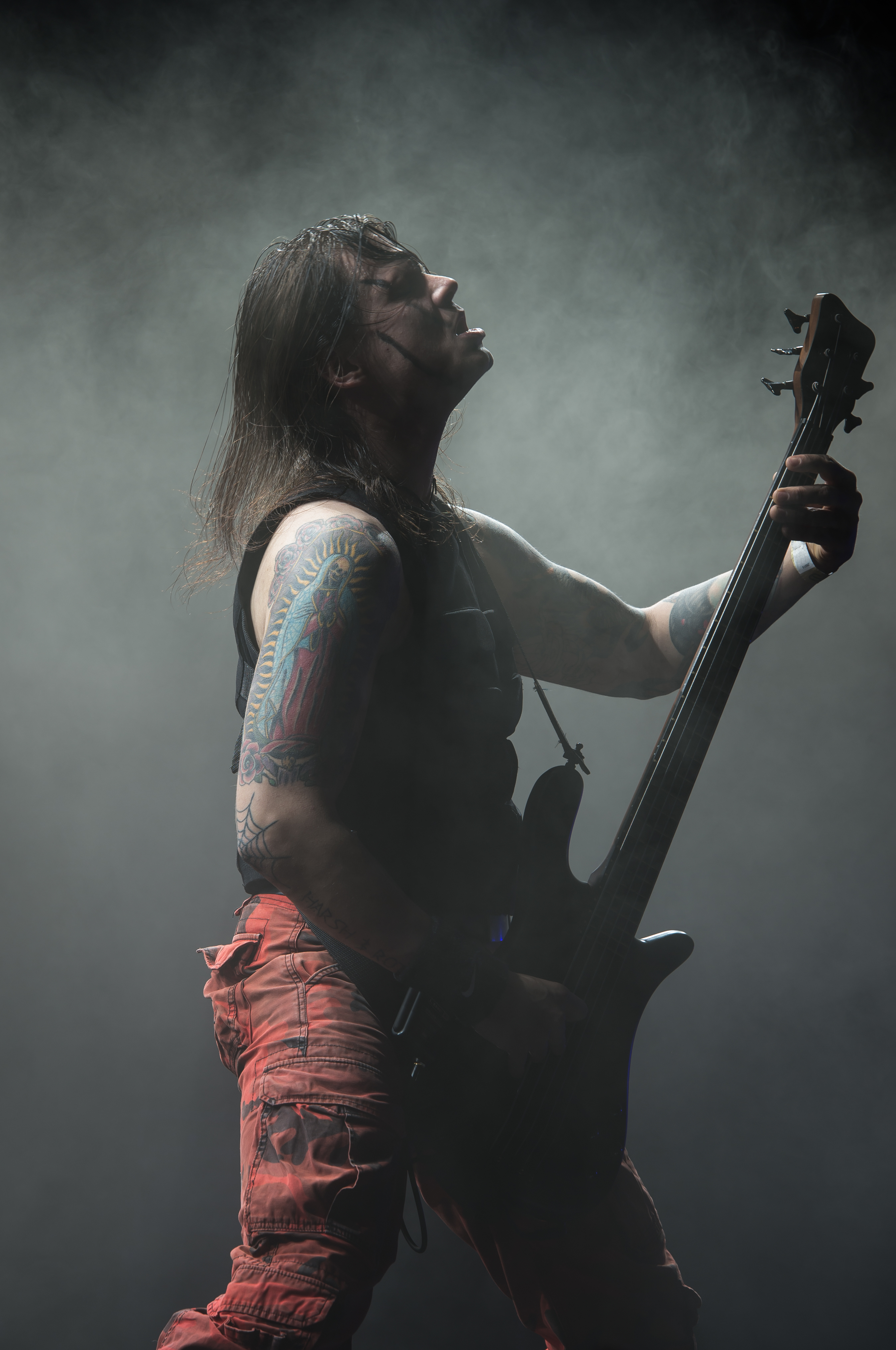 Centhron at e-tropolis 2015, Oberhausen